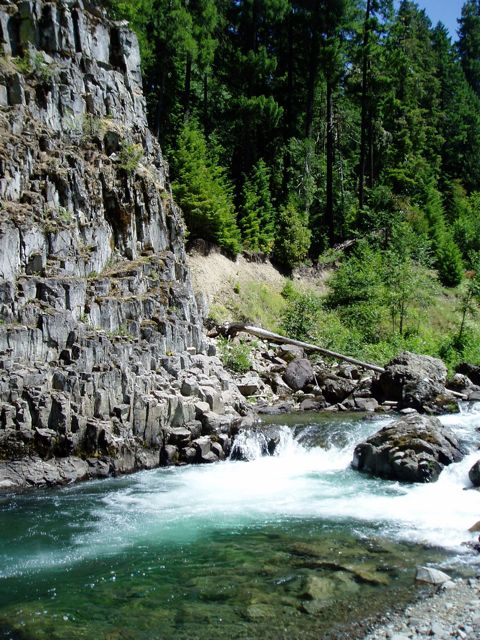 Photo of Clackamas River, Oregon